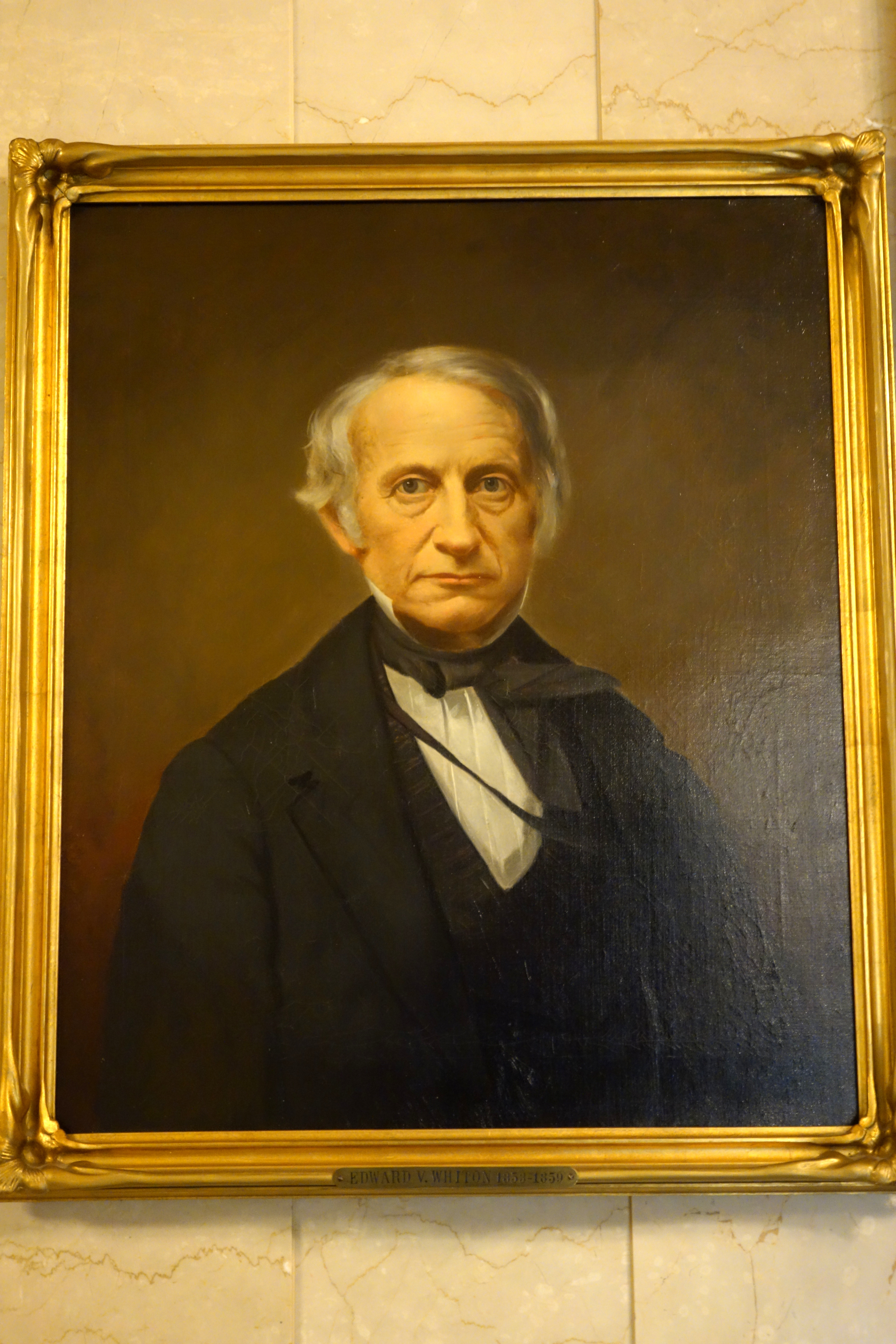 Portrait of Edward Vernon Whiton - Wisconsin Supreme Court, Madison, Wisconsin, USA. Artist unknown. This artwork is in the public domain because it was first published in the United States before 1923.